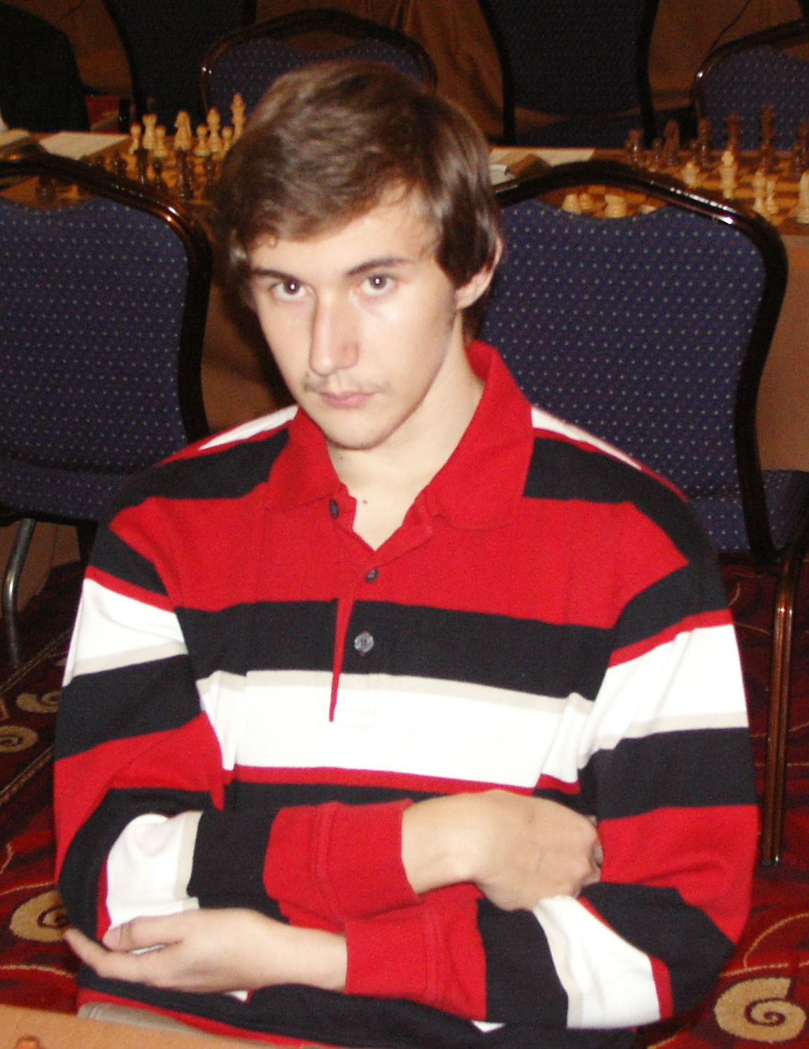 GM Sergey Karjakin ((UKR)), Euro Chess Iraklion 2007